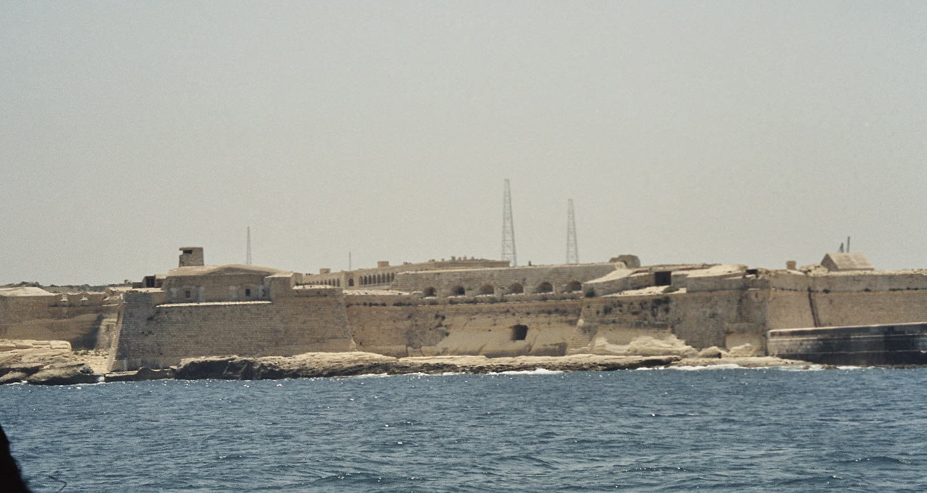 Fort Ricassoli Malta